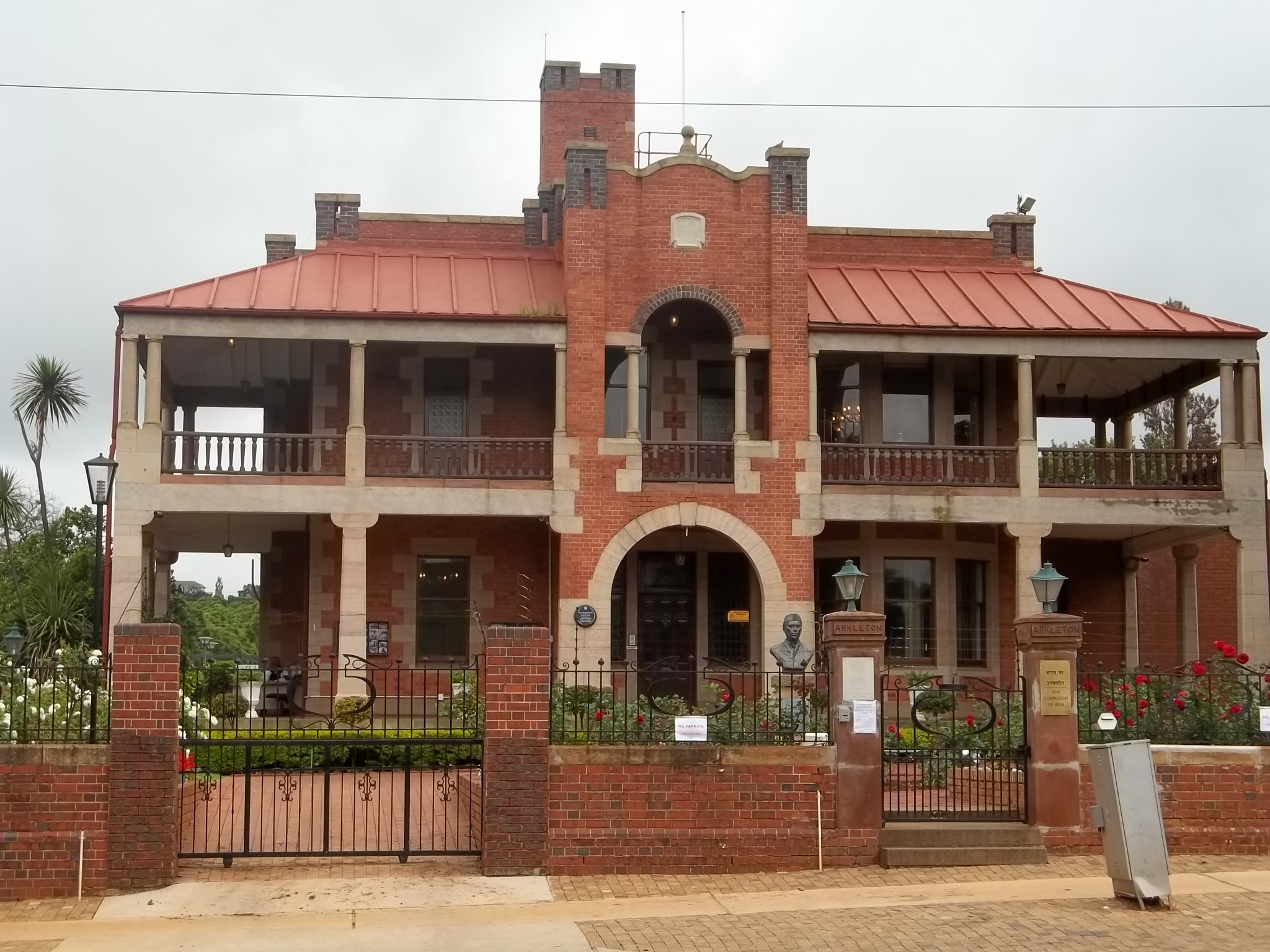 IN in ZA